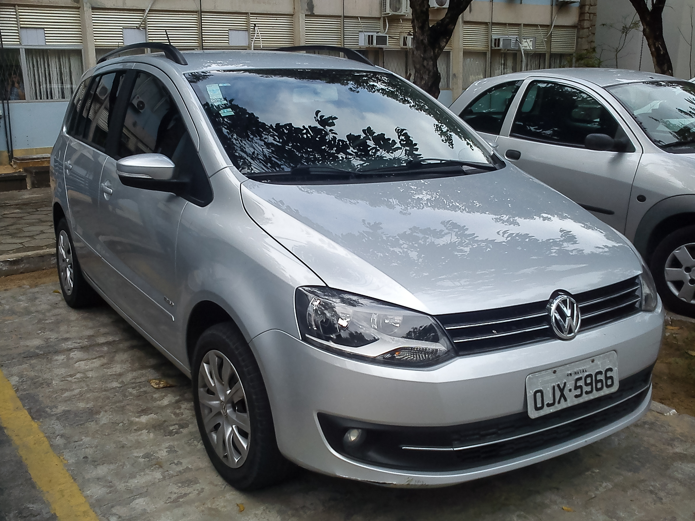 VW Spacefox 1st facelift